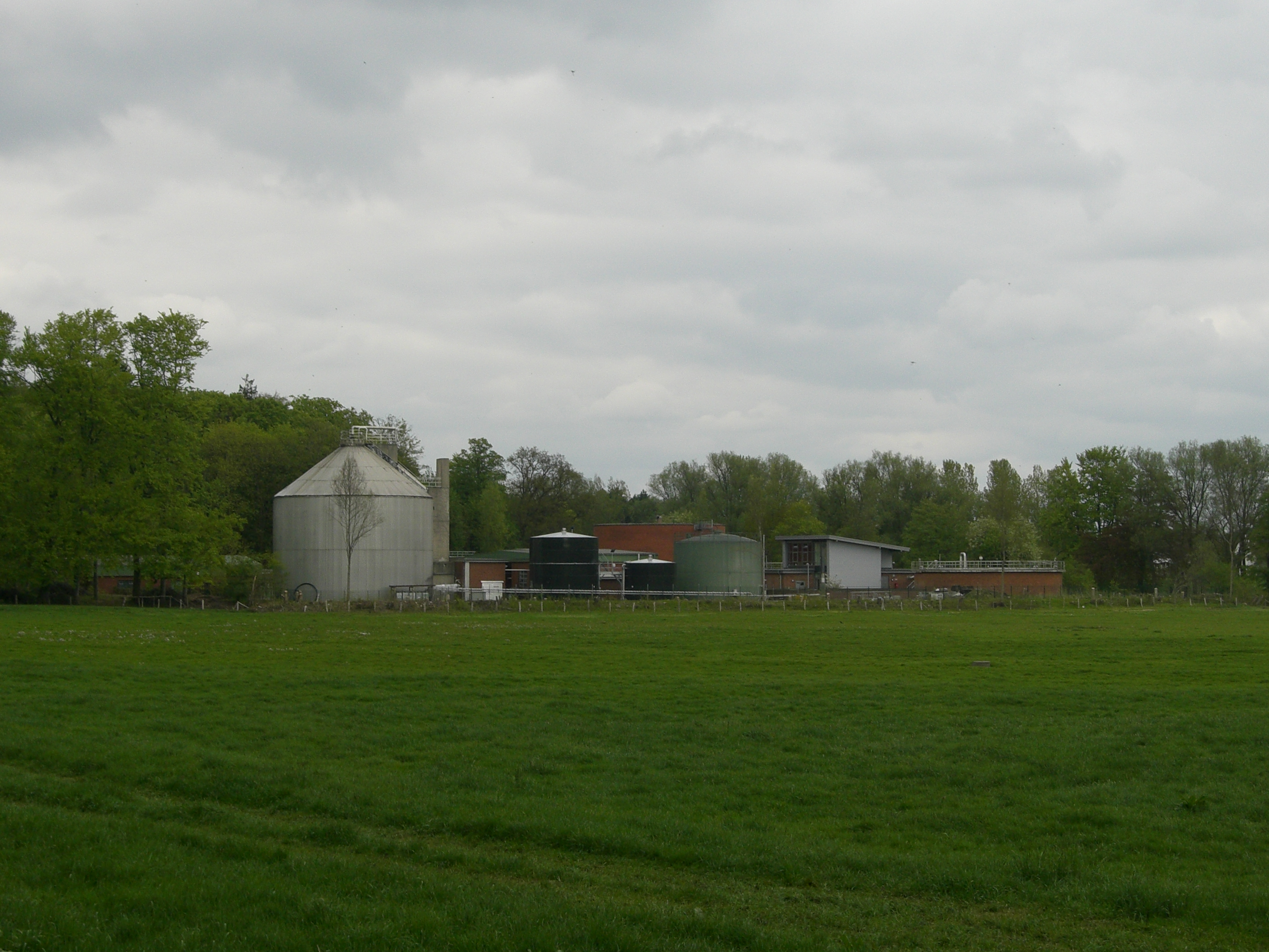 Sewage treatment plant of Preetz, Schleswig-Holstein, Germany